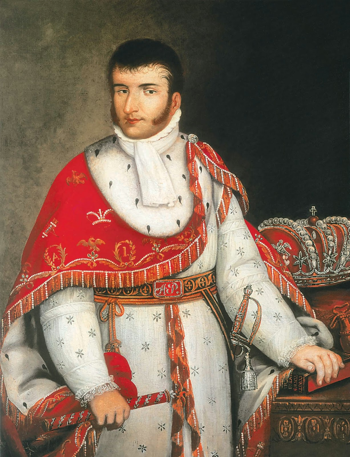 A half-length portrait of Mexican Emperor Agustín I attributed to Josephus Arias Huerta.